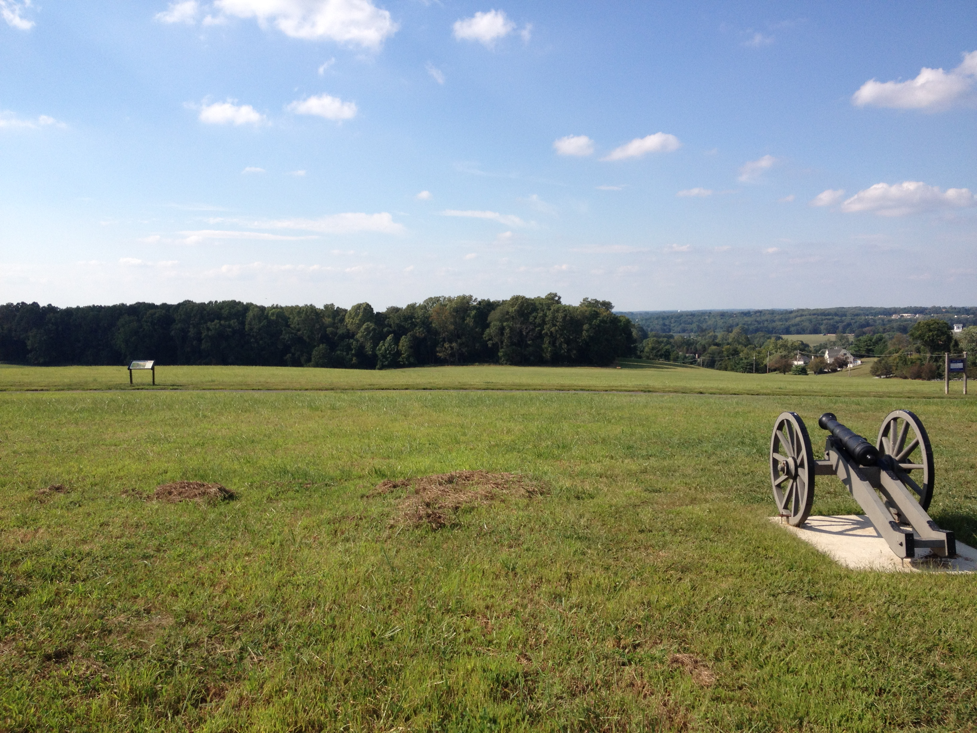 Position of Stephen's Division at Sandy Hollow - Battle of Brandywine